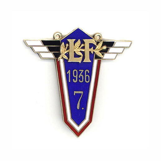 Old Estonian School Graduation Badge — LF (City of Tallinn French School), 1936, VII issue